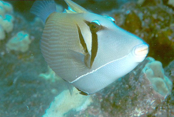 Sufflamen bursa, Kona, Hawaii. Image taken by Clark Anderson/Aquaimages. Category:Tetraodontiformes images